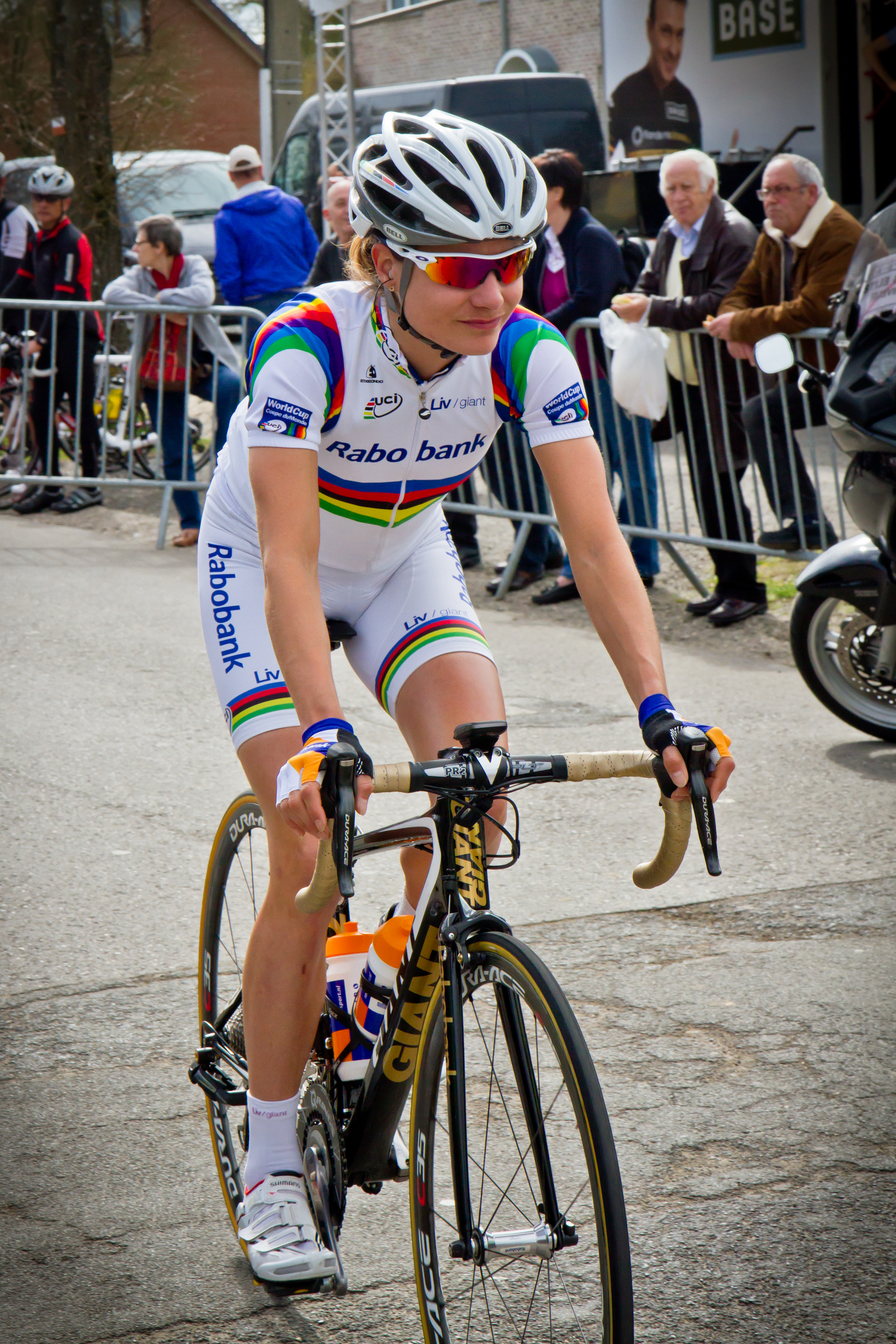 Marianne Vos, riding for Rabobank. Wearing the champion rainbow colors because she won the 2012 Road Race World Championships. The gold accents on her bike is because she won gold medal in the Olympic Road Race. She also excels at track, cycle-cross and mountain bike, making her the best all-round cyclist, no argument. La Flèche Wallonne Femmes 2013